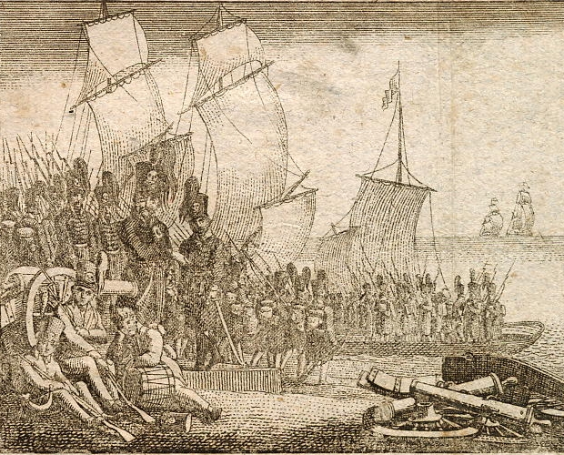 The Black Brunswickers leave for England.